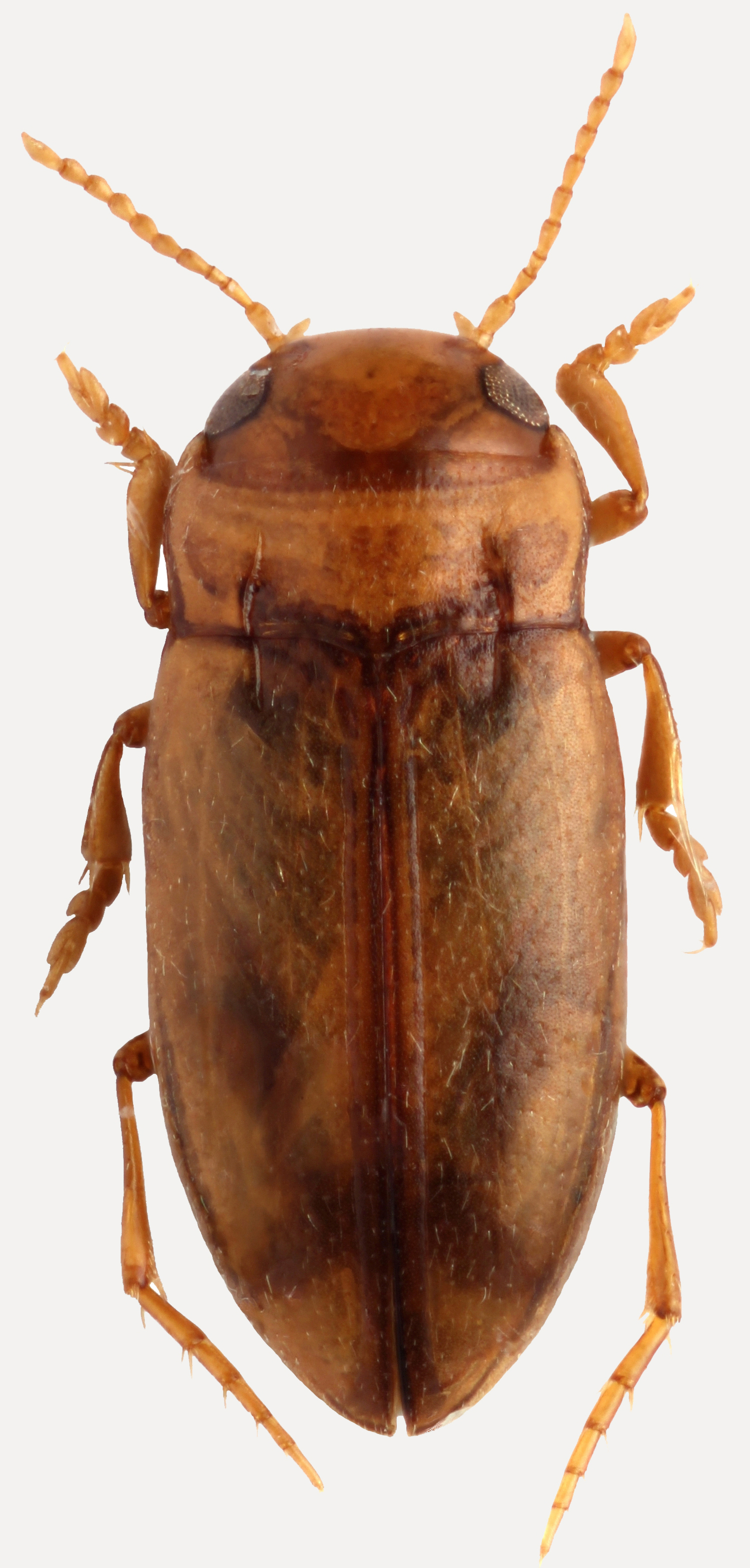 Dorsal habitus of Glareadessus stocki from the United Arab Emirates